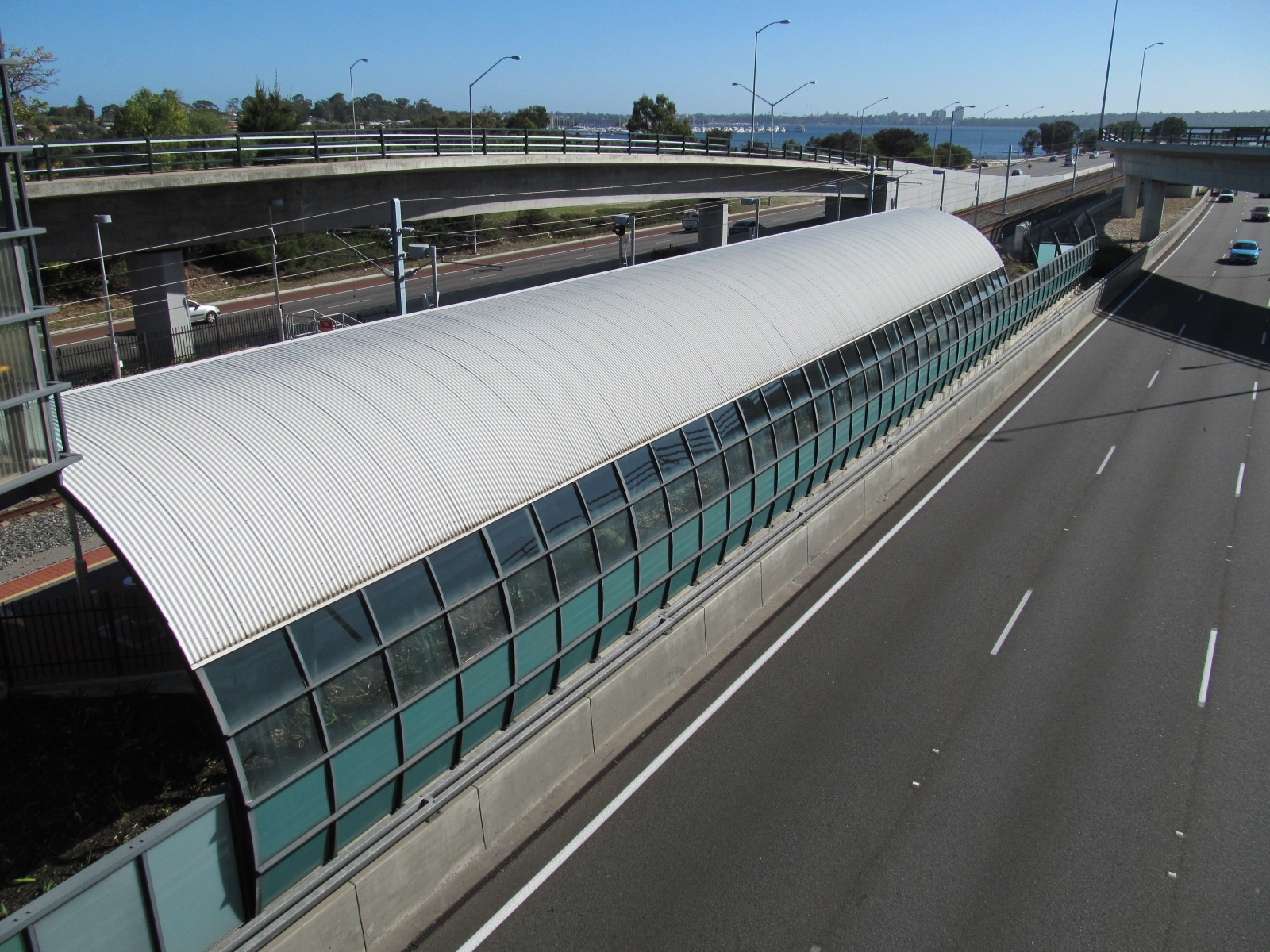 Roof of the Canning Bridge station in Perth, Australia, looking north along the Kwinana Freeway.